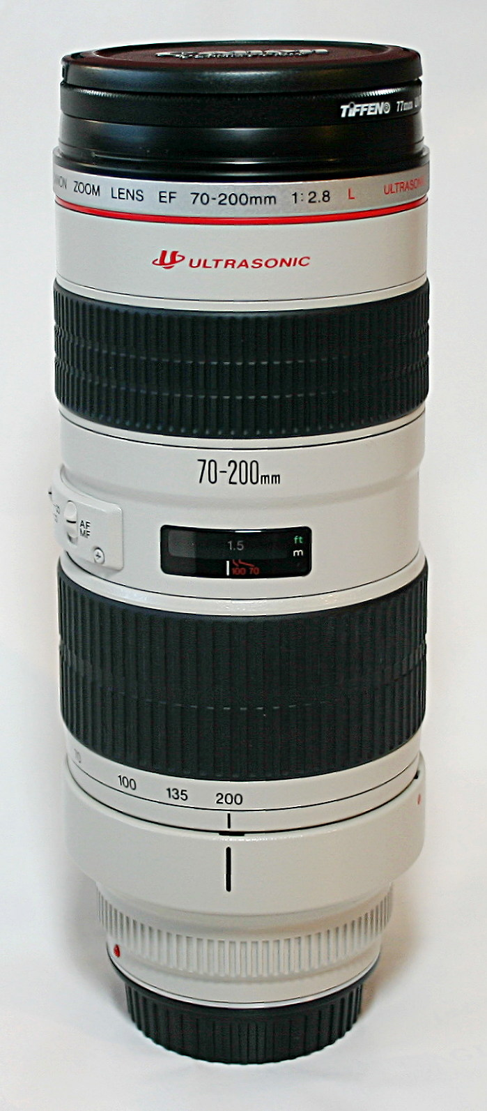 The Canon EF 70-200mm F2.8L lens (no image stabilization) with a UV filter.